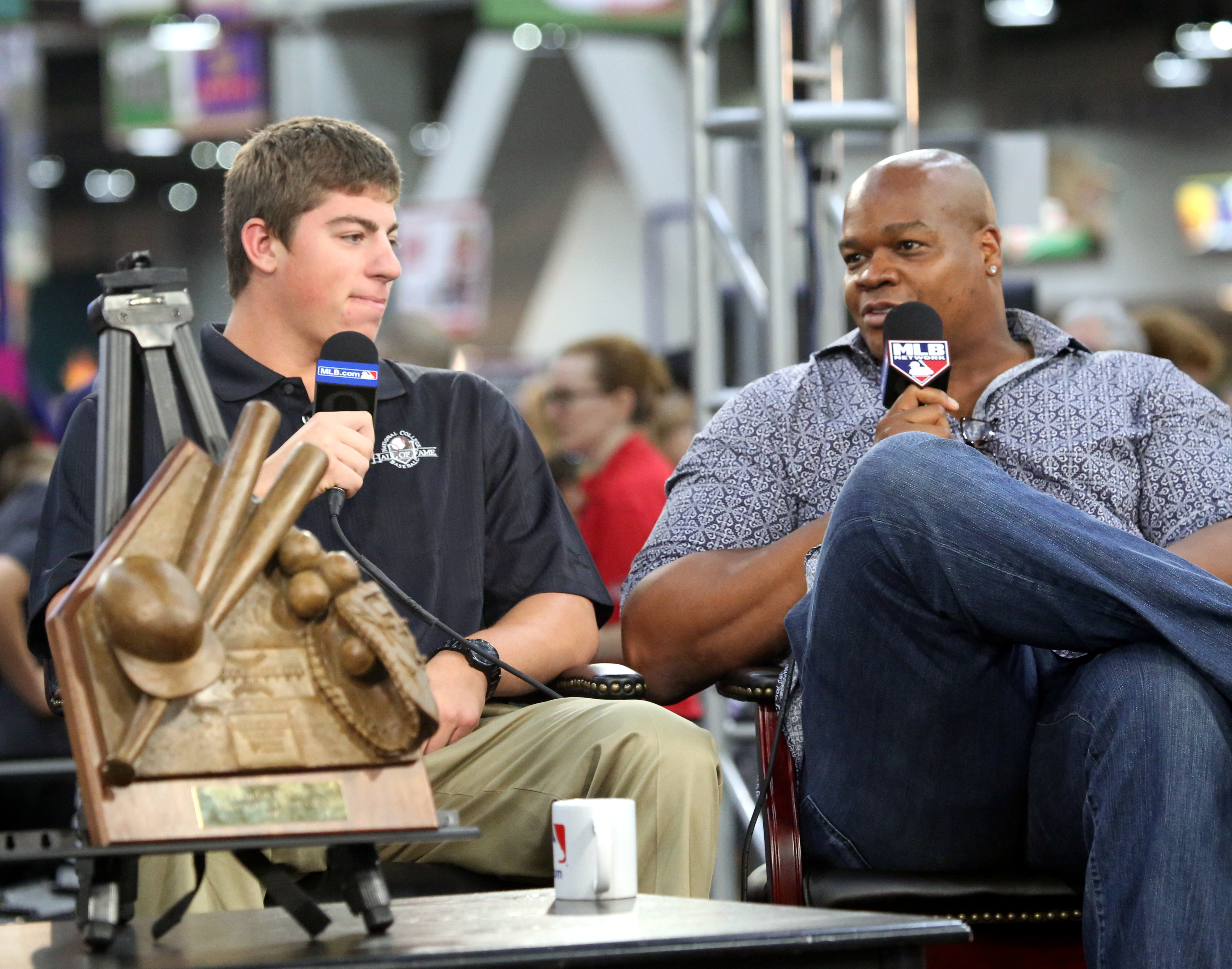 2015 John Olerud Award winner Brendan McKay of Louisville chats with Hall of Famer Frank Thomas.